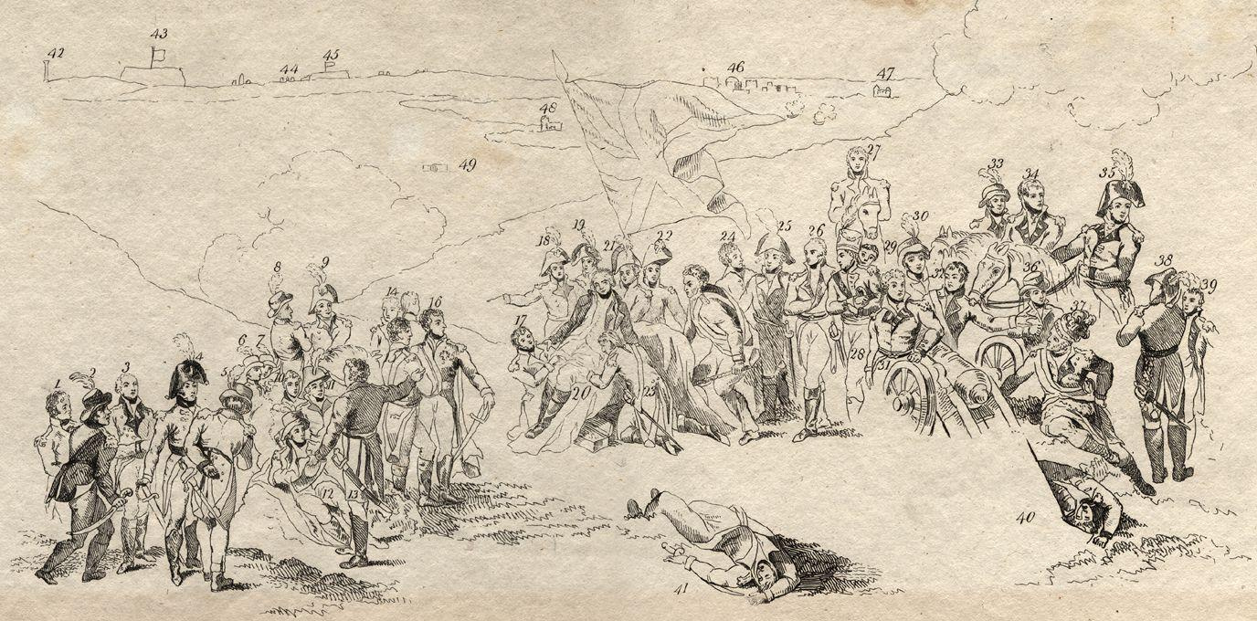 Cropped from Descriptive Sketch of the Print of the Death of Gen - Sir Ralph Abercrombie, by Sir Robert Ker Porter (died 1842), published 1804.